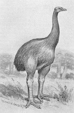 The Wonderful Paleo Art of Heinrich Harder - Prehistoric animal Illustrations used in the 1914 book Tierwanderungen in der Urwelt